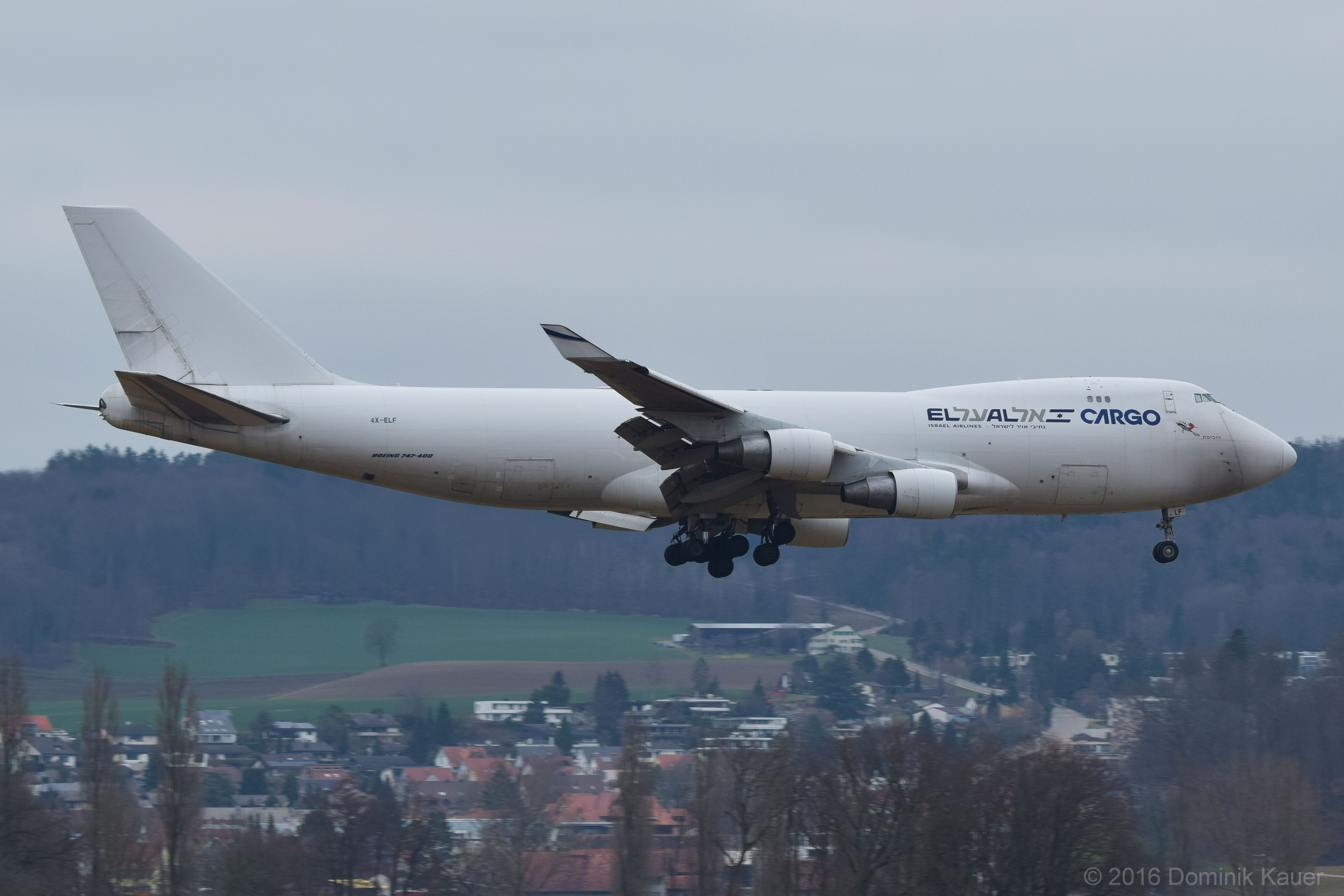 El Al Cargo Boeing 747-412F approaching Zurich!